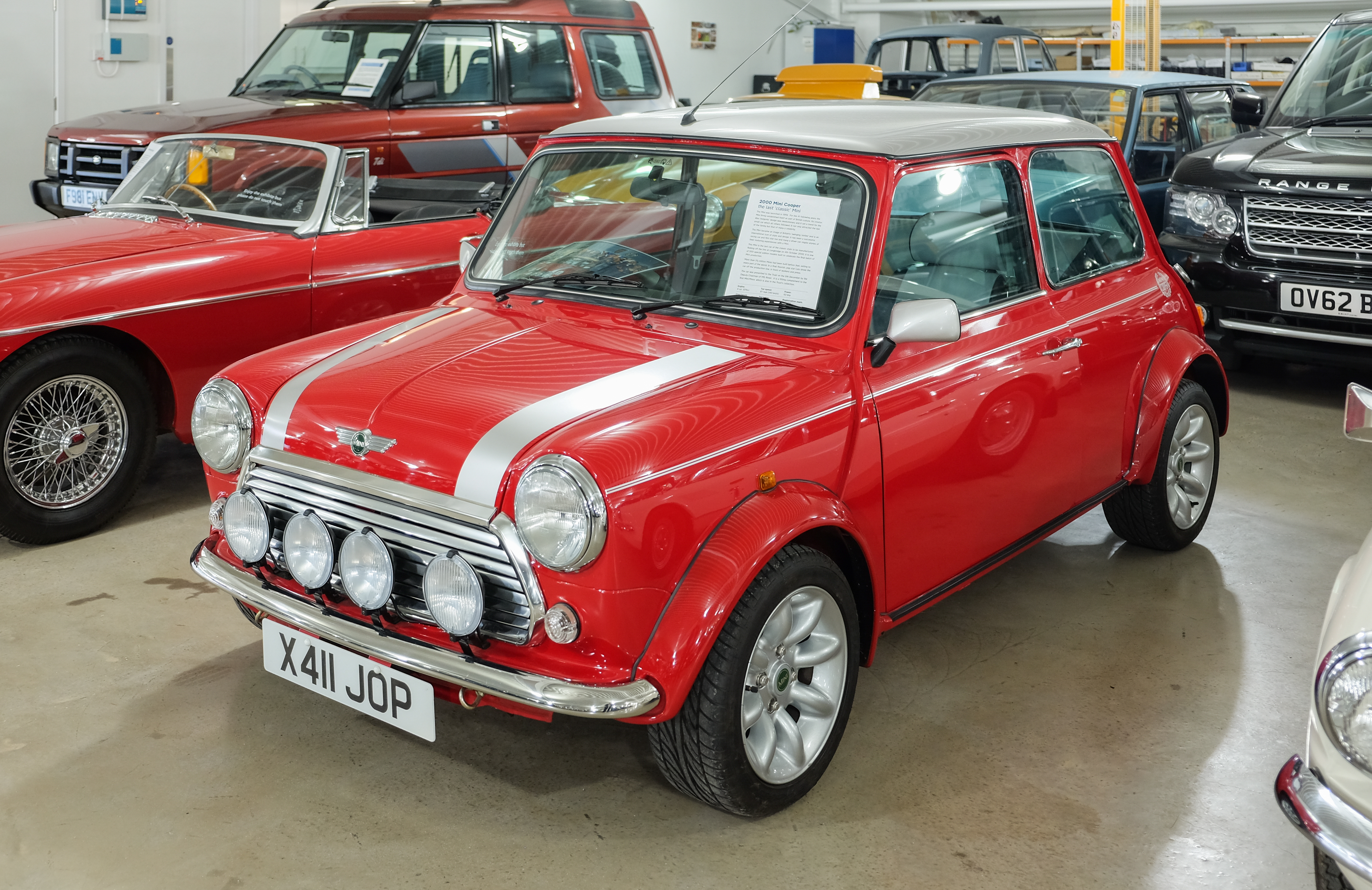 A 2000 Rover Mini Cooper. This car, with registration number X411 JOP, was the last Mini off the production line. It was driven off the line at Longbridge on 4 October 2000 by Lulu. It is kept at the British Motor Museum, Gaydon, UK.